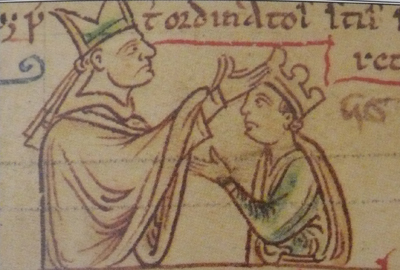 Henry III. of England . Second coronation of Henry III. Original held in Corpus Christi College Cambridge, 16, Fol 56. Also see The Art of Matthew Paris in the Chronica Majora, by Suzanne Lewis, p.204